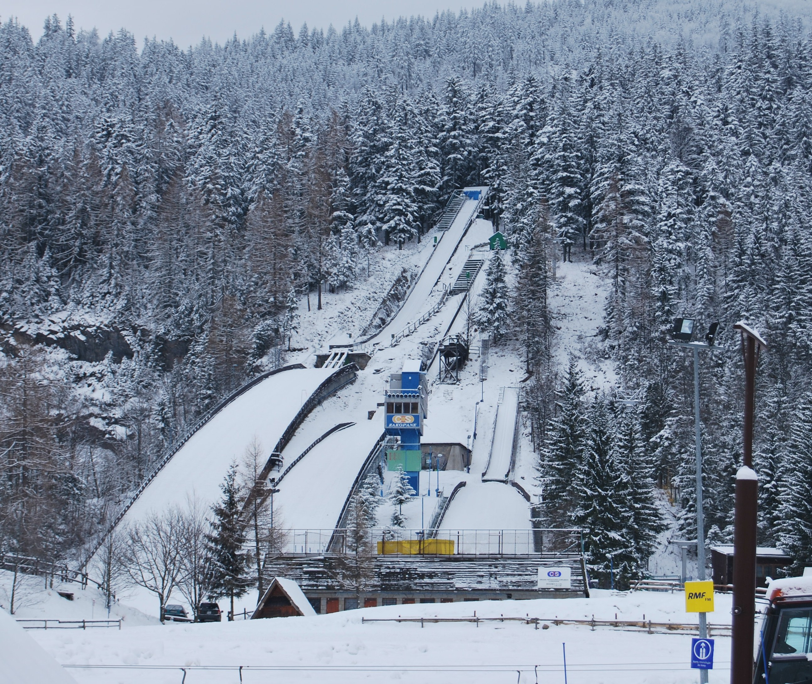 Complex of ski jumping hills of Średnia Krokiew in Zakopane in Polish Tatra Mountains.